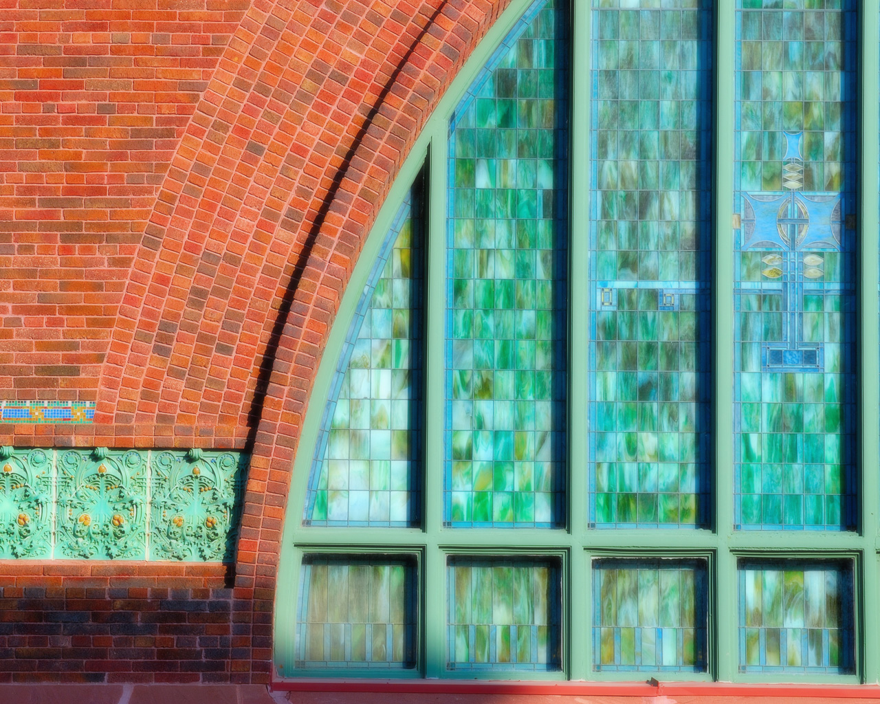 Taken by myself, Thomas P. Shearer October 7, 2006 detailing the West elevation of Louis Sullivan's National Farmers' Bank.